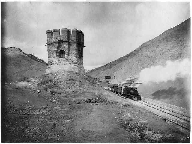 Title: Kach Station and blockhouse near the divide between Harnai and Quetta Physical description: 1 photographic print : gelatin silver ; 8 x 10 in. or smaller. Notes: Forms part of: Jackson, William Henry, 1843-1942. World's Transportation Commission photograph collection (Library of Congress).; Published as halftone in Harper's Weekly, 1895, p. 868.; Gift; Colorado Historical Society; 1949.; Similar to lantern slide W7-436.; Photographic print made by LC from Jackson's vintage film negative.